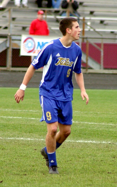 Ryan Pore playing for the University of Tulsa in 2004, by Rick Dikeman Ryan went to Madison high school and is now in 2010 playing for Portland Timbers